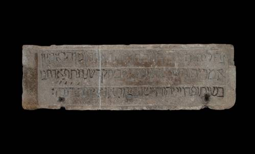 Hebrew Inscription form Gouveia Medieval Sinagogue